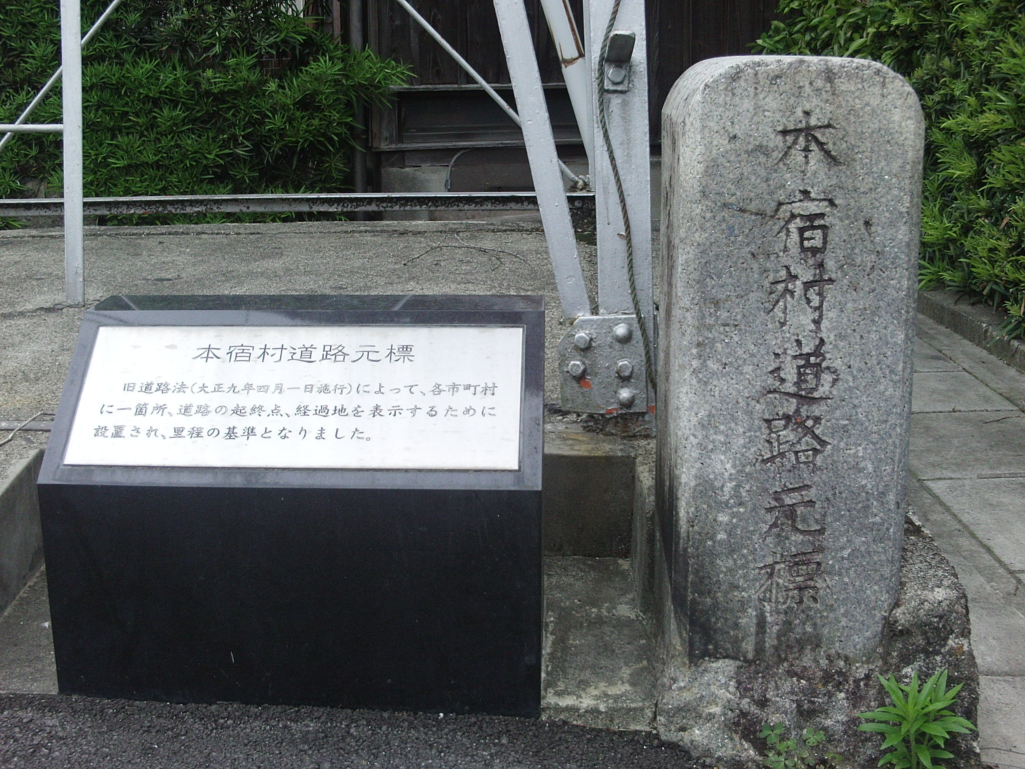 Kilometre zero of Motojuku village. (Motojuku village, Nukata-gun, Aichi.)